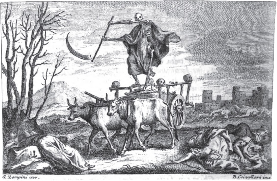 Engraving of Petrarch's Triumph of Death.